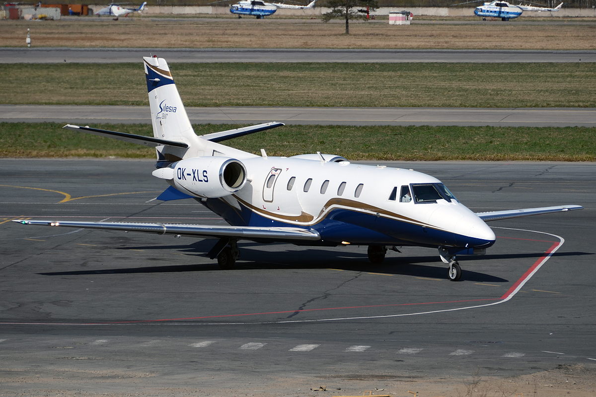 Silesia Air, OK-XLS, Cessna 560XL Citation XLS+